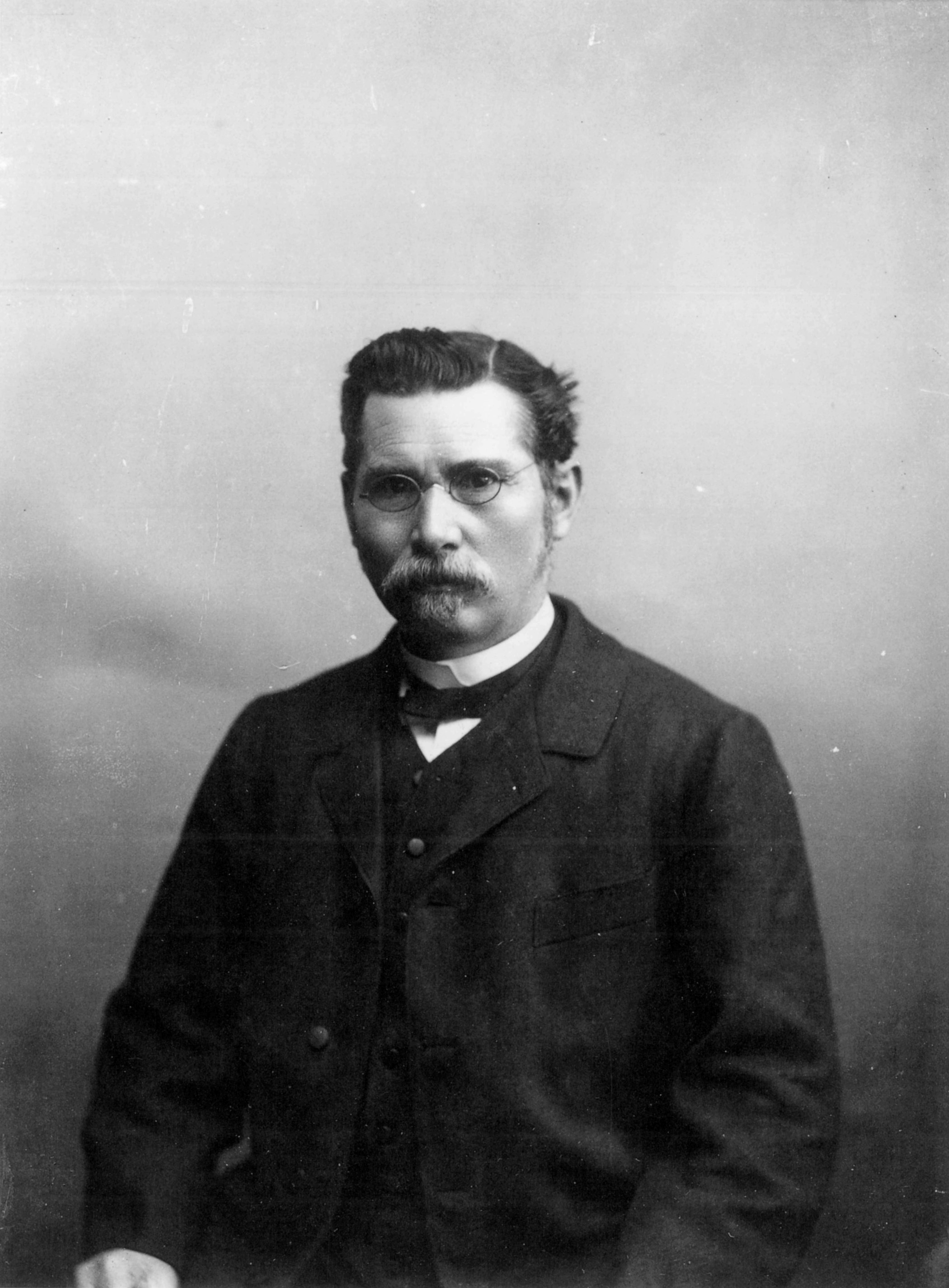 Hermann Walter (1838–1909), German photographer and chronicler of Leipzig